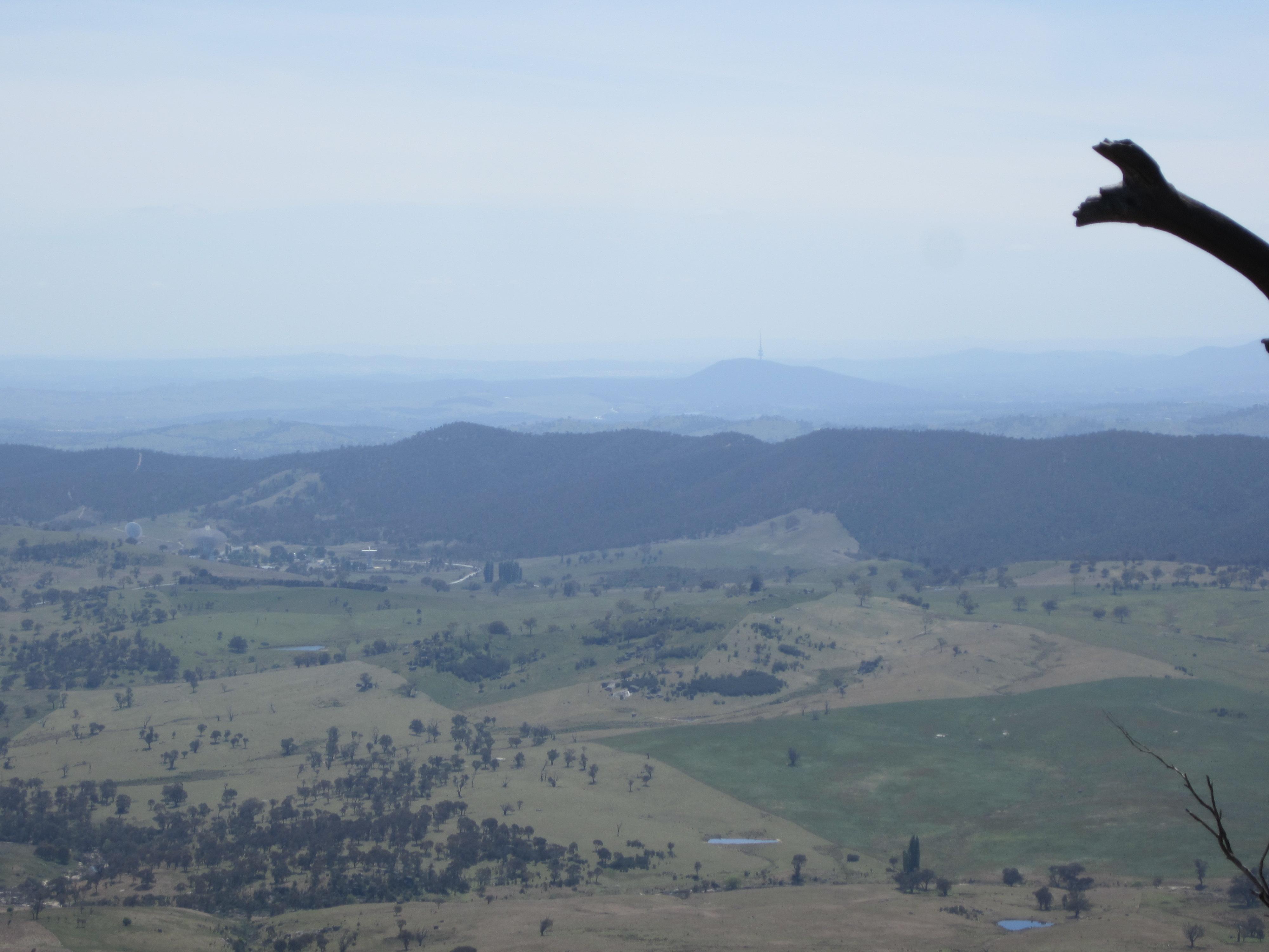 Looking towards Canberra from the top of Gibraltar Peak, taken during a hiking tour as part of Australian Capital Tourism's Human Brochure.